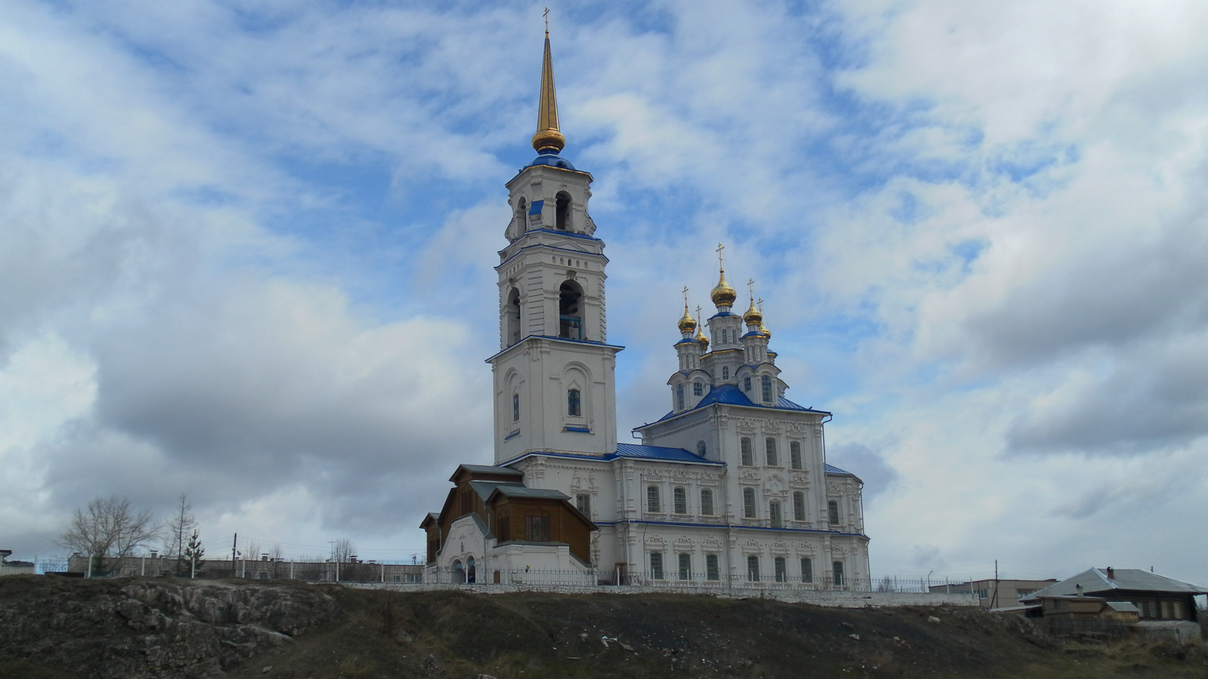 St. Peter and Paul church in Severouralsk